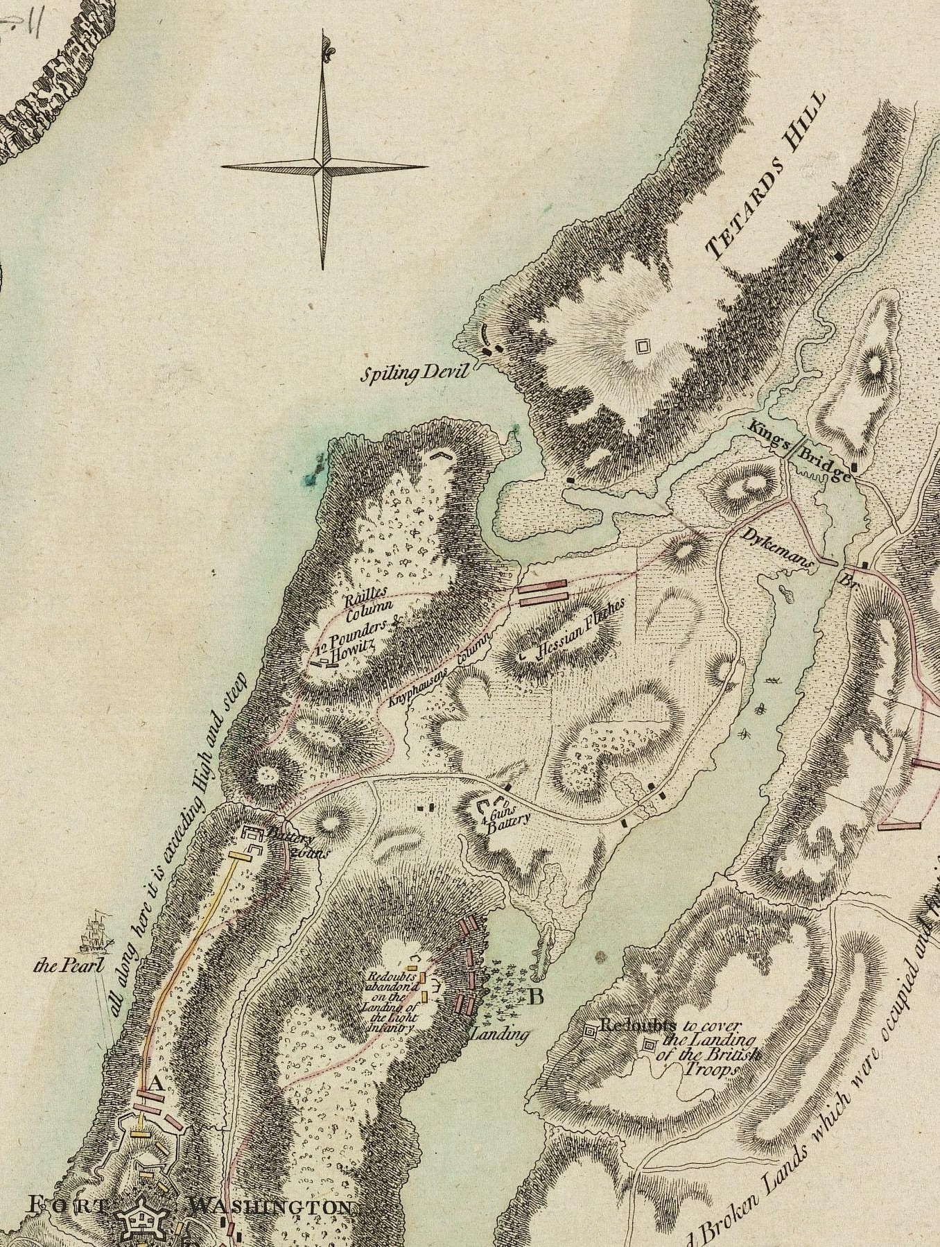 Map of the locations of Forts Washington, Tryon, and Cock Hill.jpg